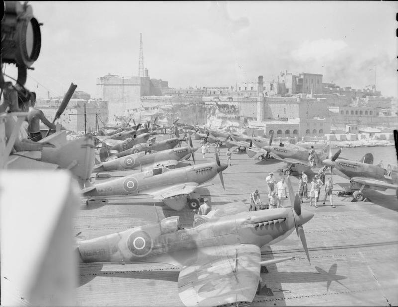 The Royal Navy during the Second World War Under the bombed bastions of the entrance to Grand Harbour, Valletta, Malta, an escort carrier arrives with the deck loaded with Supermarine Seafire IIIs.